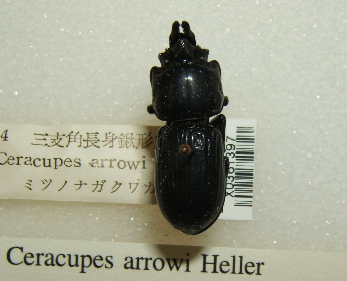 Ceracupes arrowi adult taken by Shawn Hanrahan at the Texas A&M University Insect Collection in College Station, Texas.